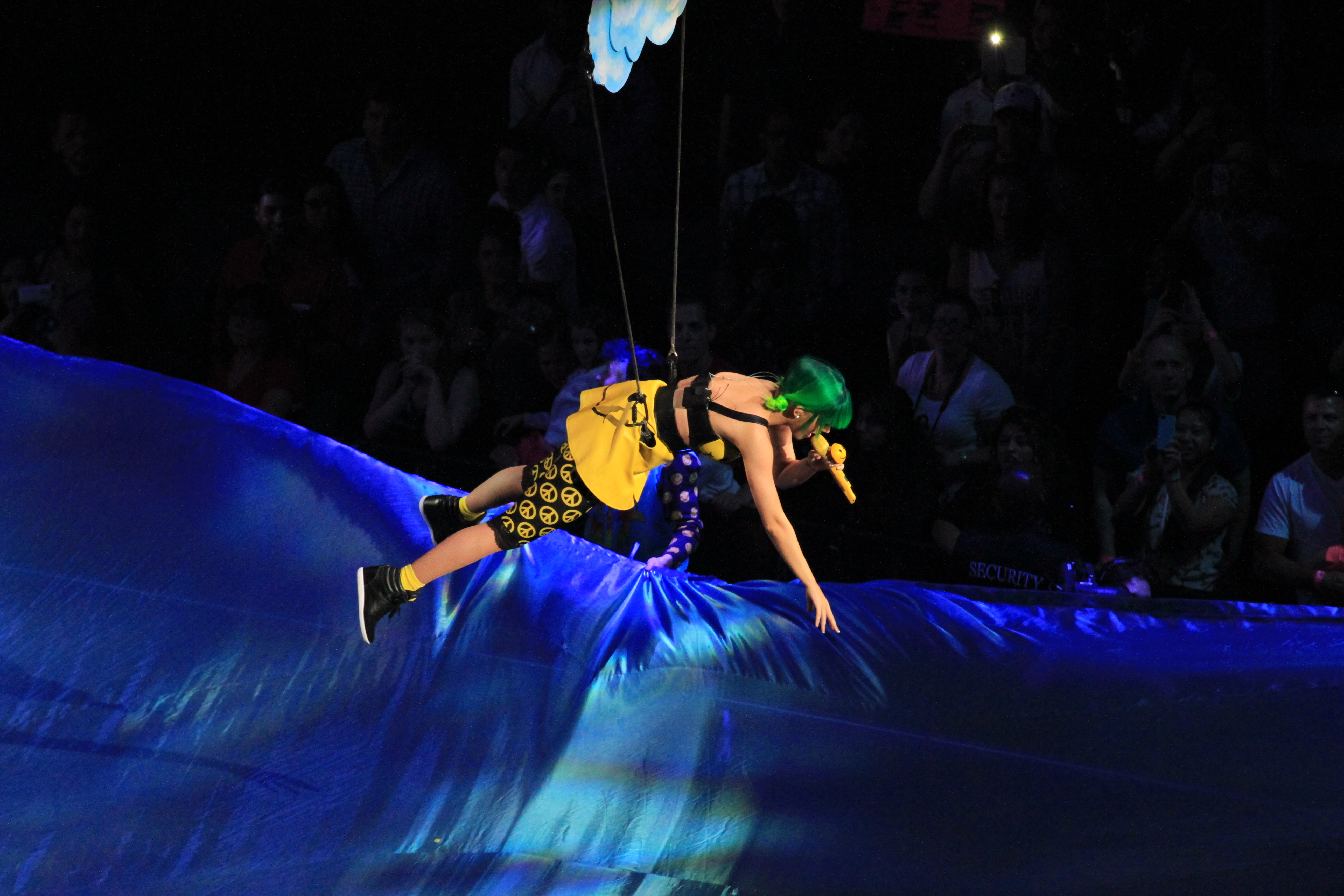 Katy Perry performing "Walking on Air" at Prudential Center in Newark in July 12, 2014.